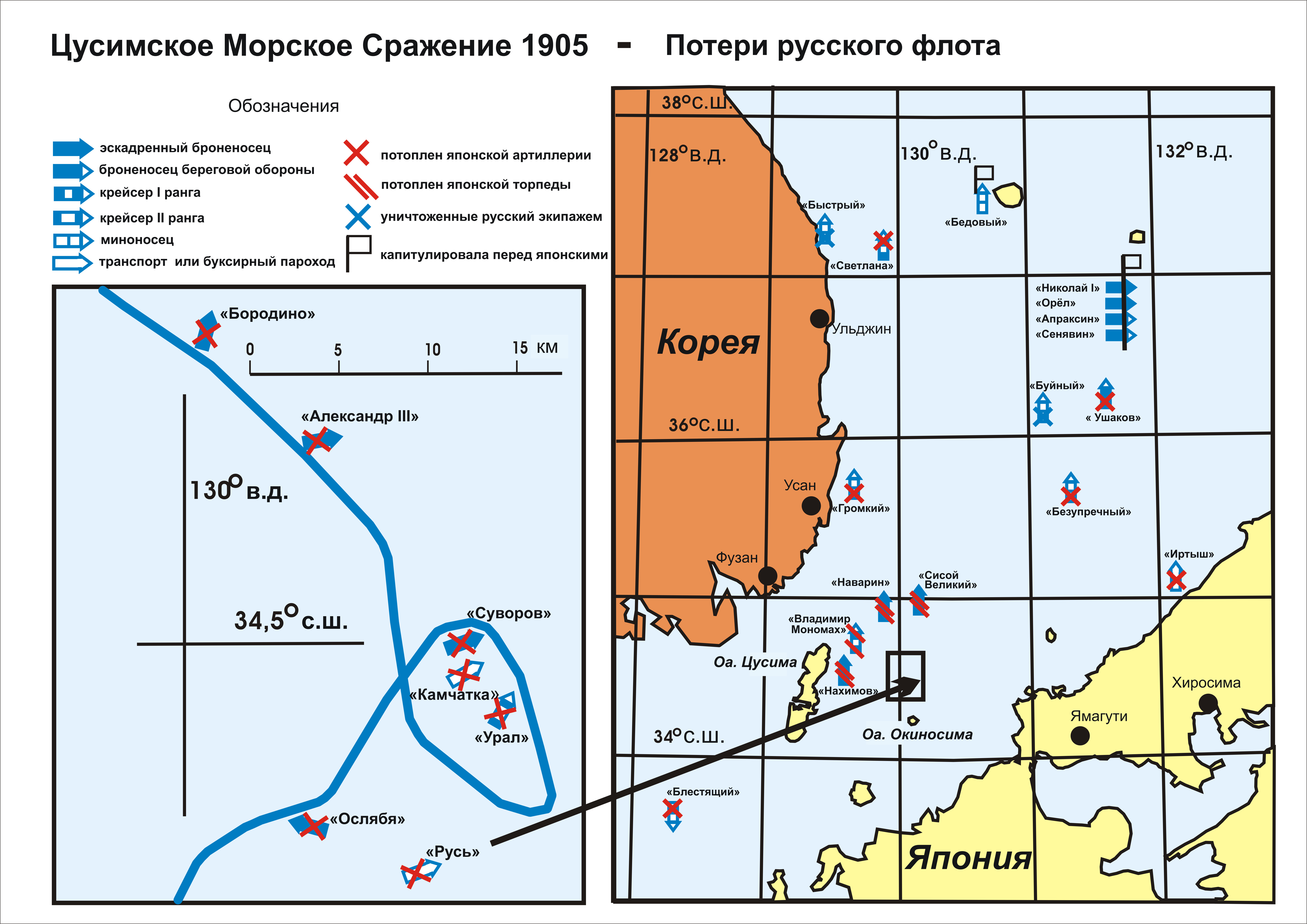 Losses of the Russian fleet at the Tsushima sea battle 1905 (in Russian)